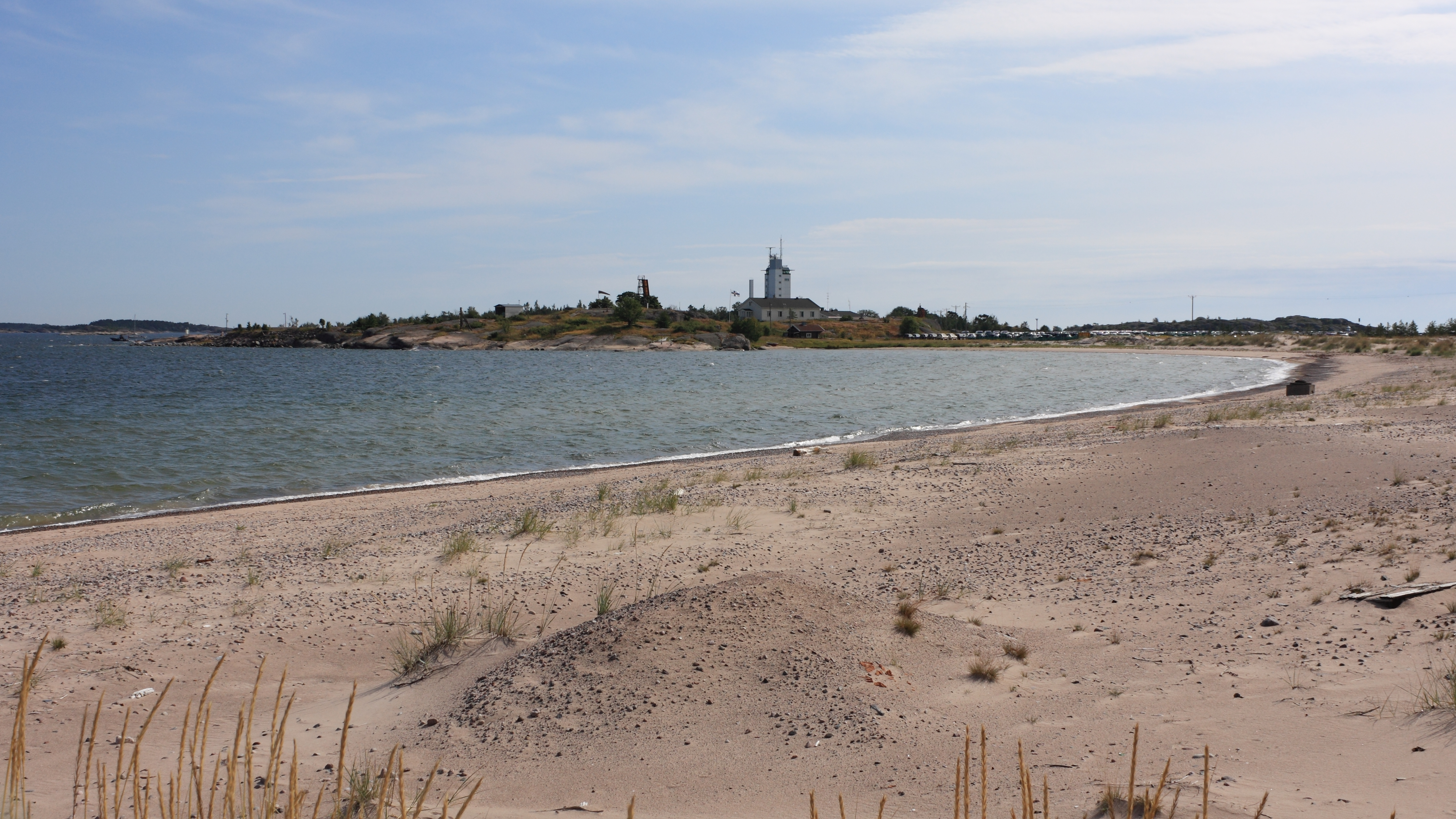 Tulliniemi, Hanko, the southest point in mainland Finland.